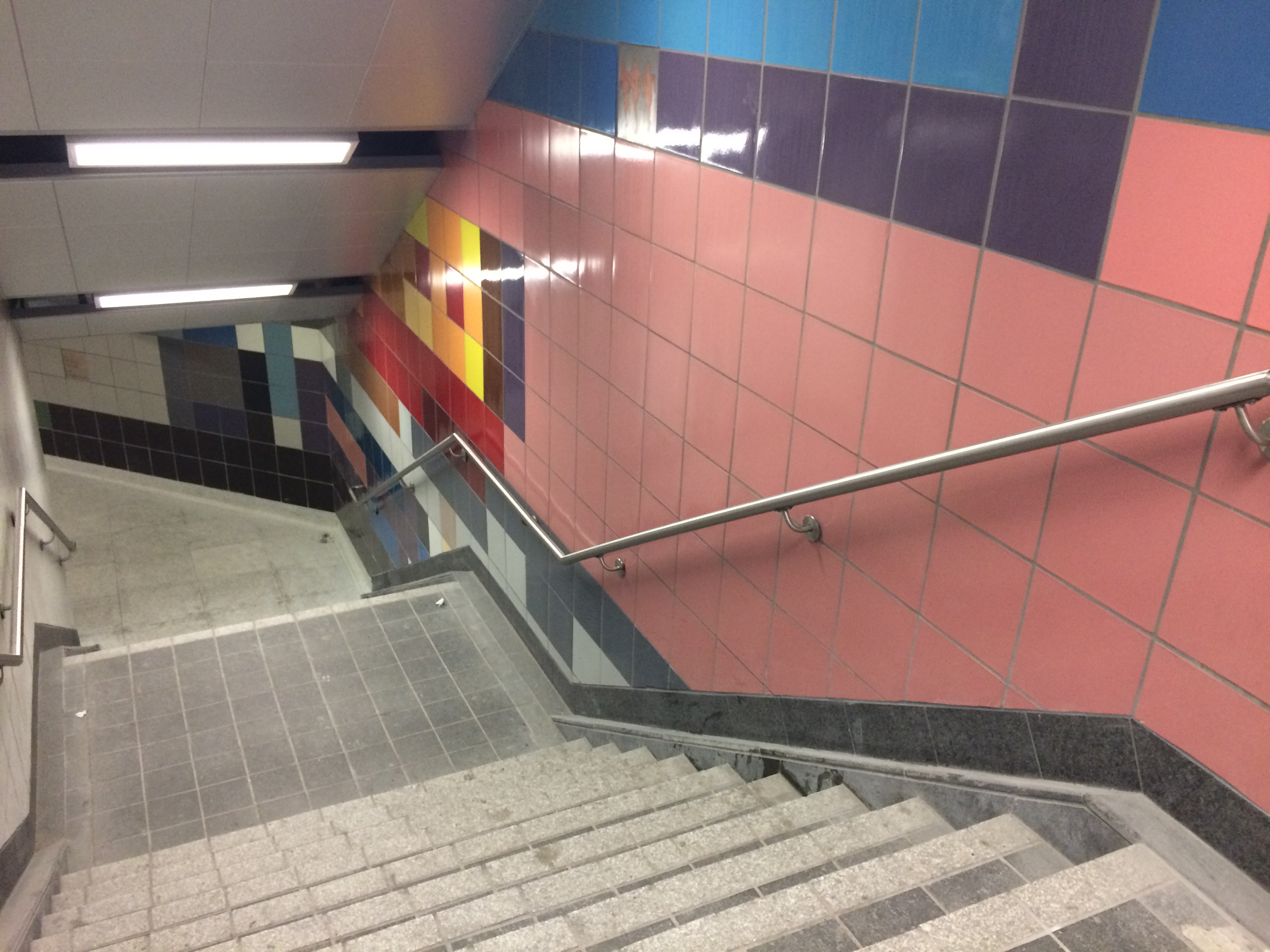 Renovated stairwells at Dufferin TTC station in Toronto, ON.